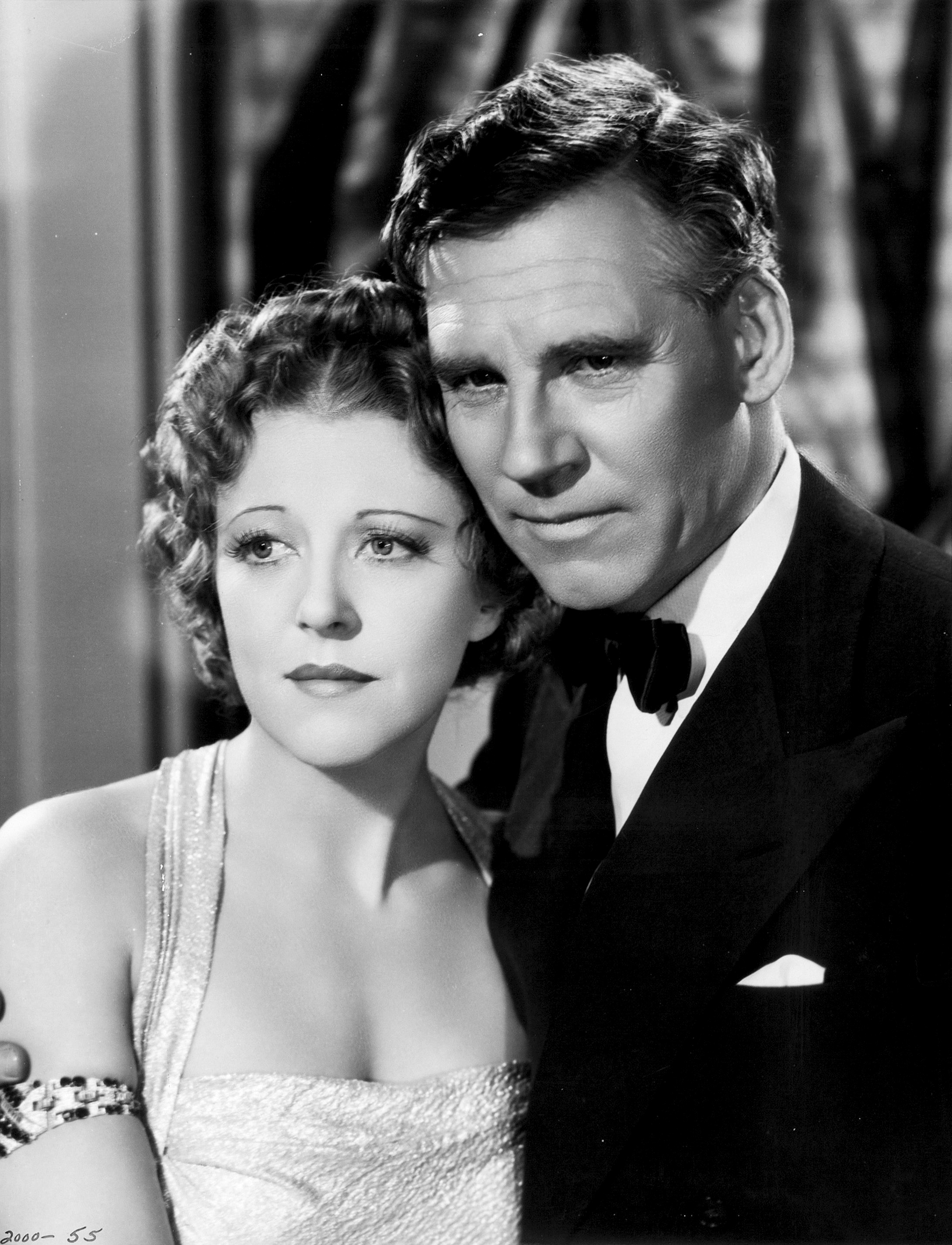 Promotional photo of Walter Huston and Ruth Chatterton in the 1936 film Dodsworth. Photograph by Kenneth Alexander.